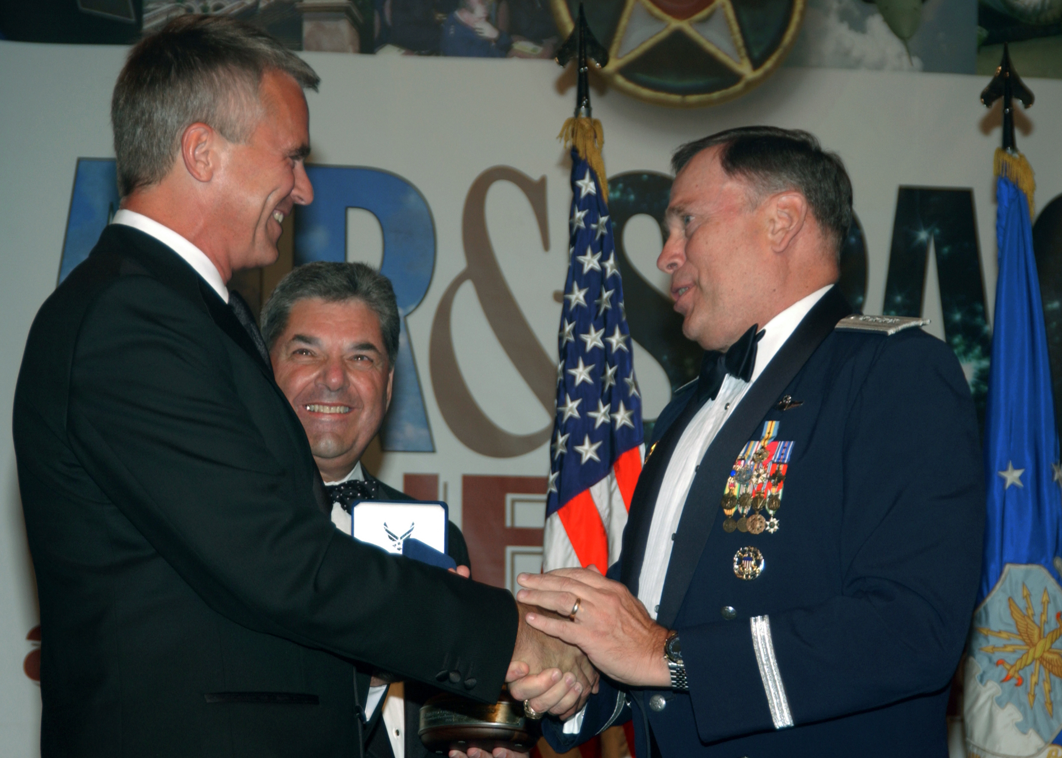 Air Force Chief of Staff Gen. John P. Jumper recognizes Richard Dean Anderson for his role in Stargate SG-1. He made Mr. Anderson an honorary Air Force brigadier general.